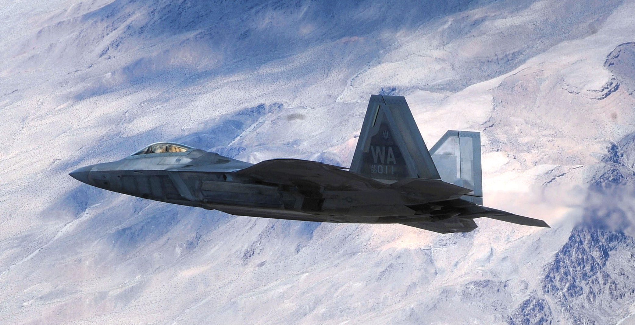 433d Weapons Squadron - Lockheed Martin F-22A Raptor - 99-0011